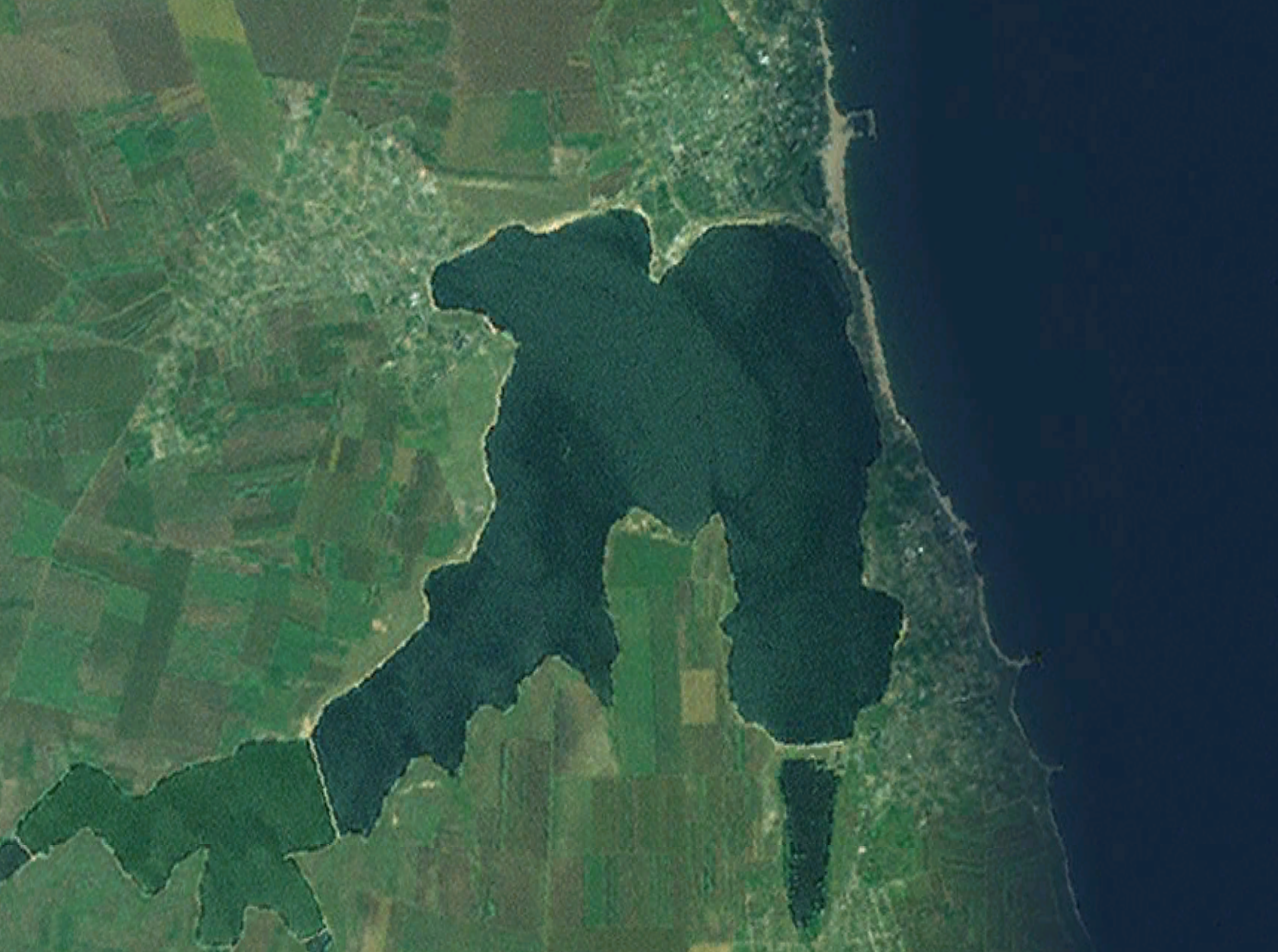 Techirghiol Lake, Constanta County, Romania